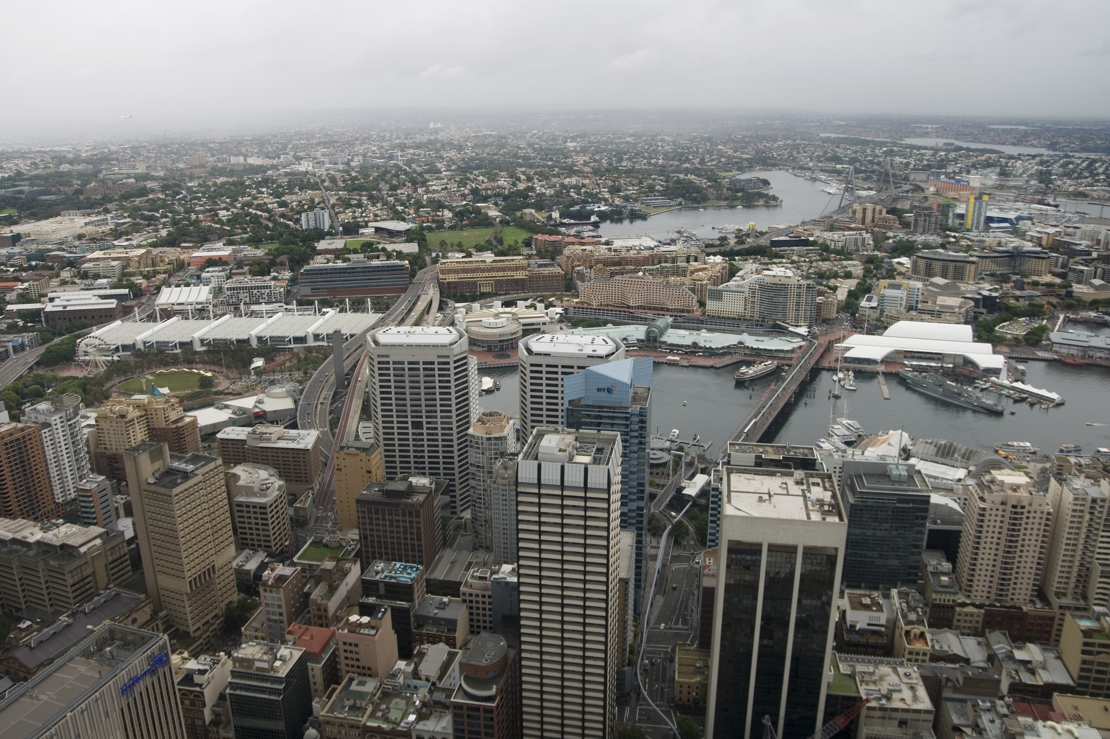 Darling Harbour view from Sydney Tower